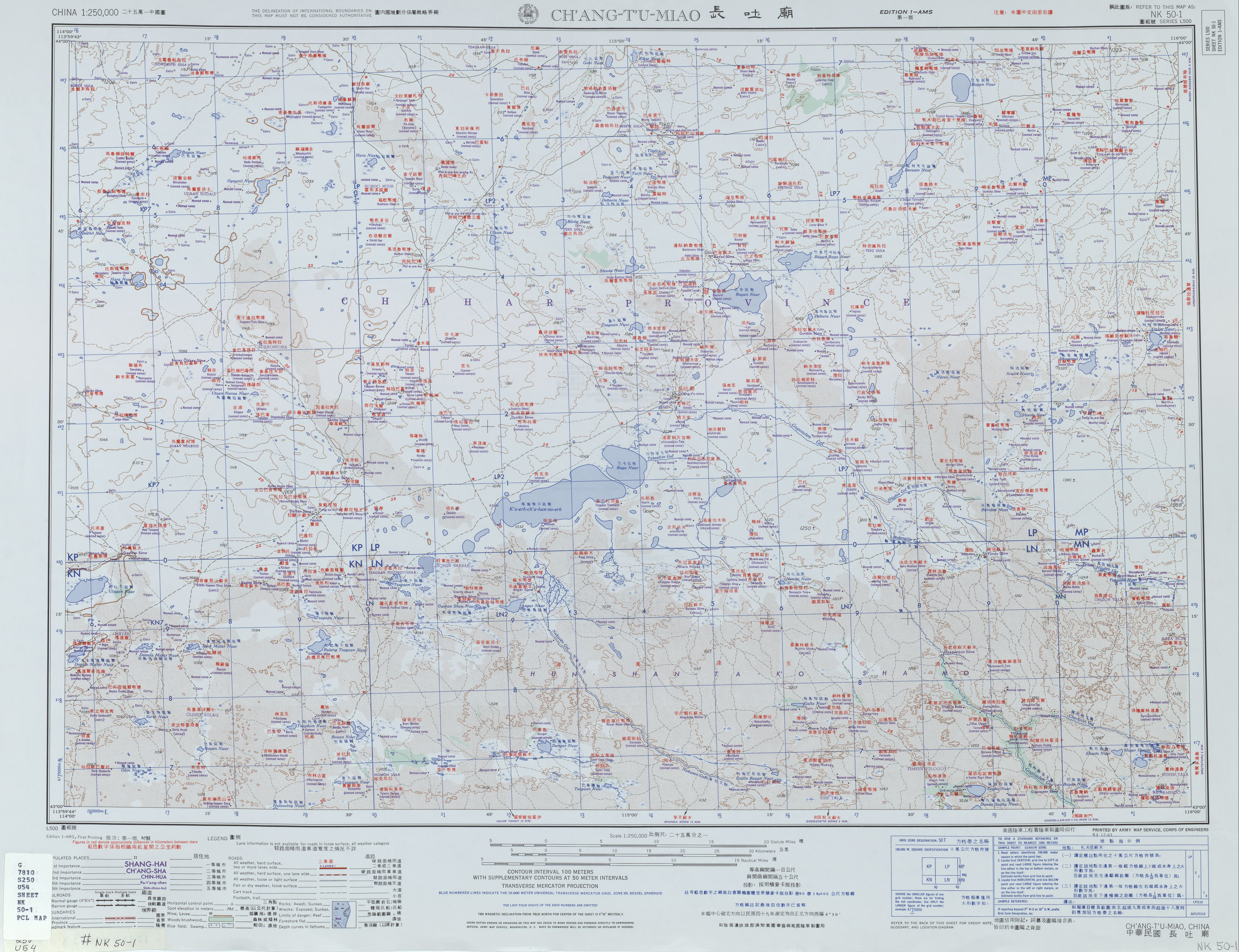 China AMS Topographic Maps